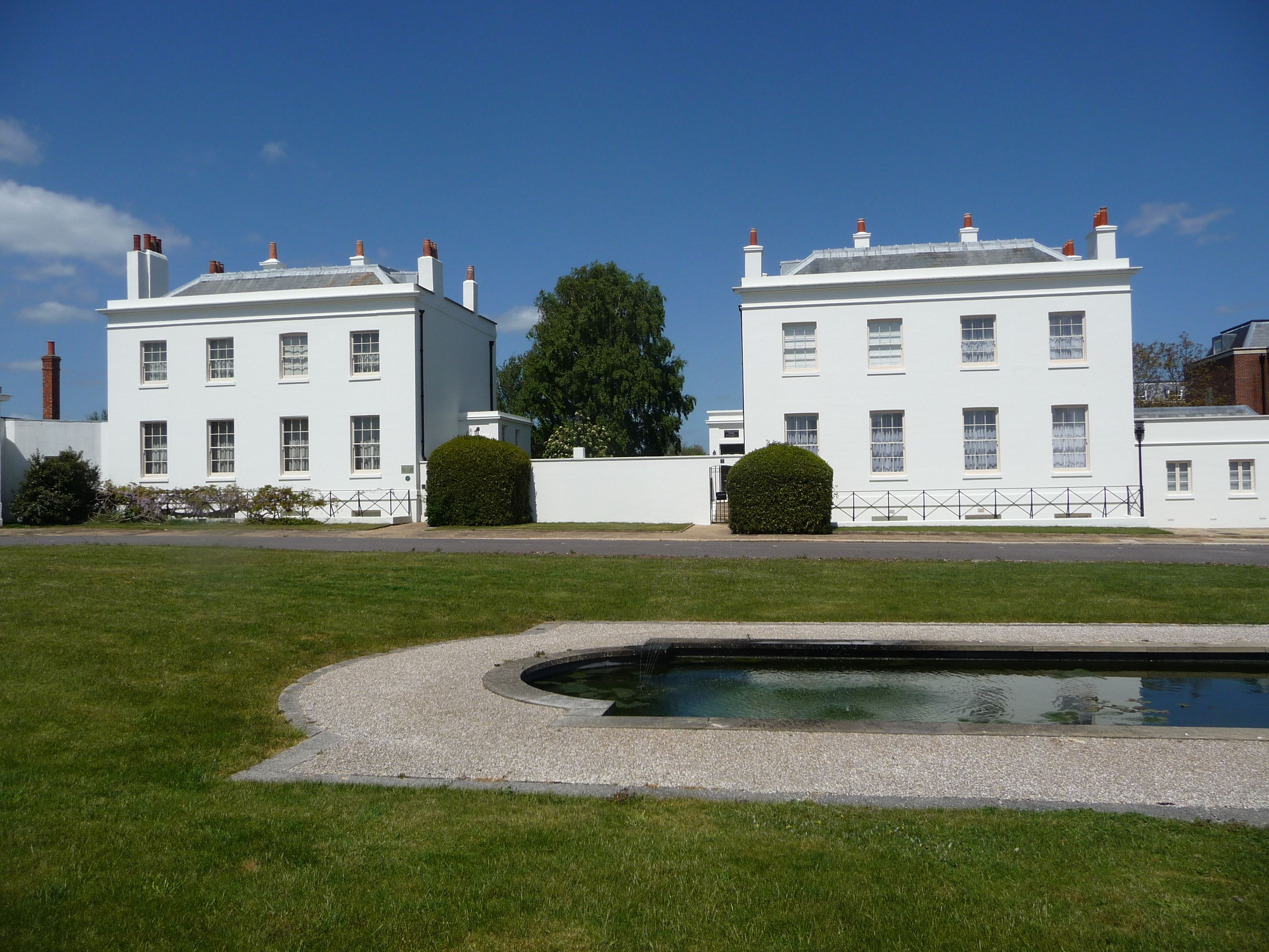 Adjacent to the Main Gate sit the Superintendent's and Deputy Superintendent's Houses which were designed and built in stuccoed brick by George Taylor in 1830-31 to house the Victualling Yard senior officers. Both buildings have Grade II Listed Building status.